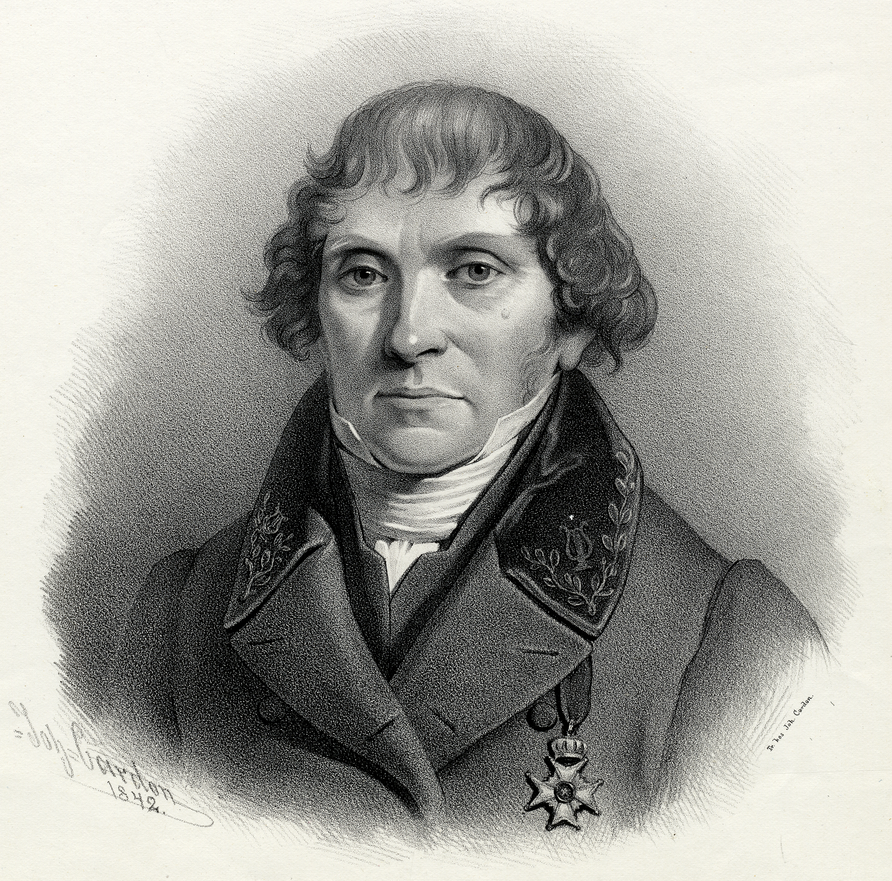 Göran Wahlenberg on a lithography by Johan Elias Cardon.